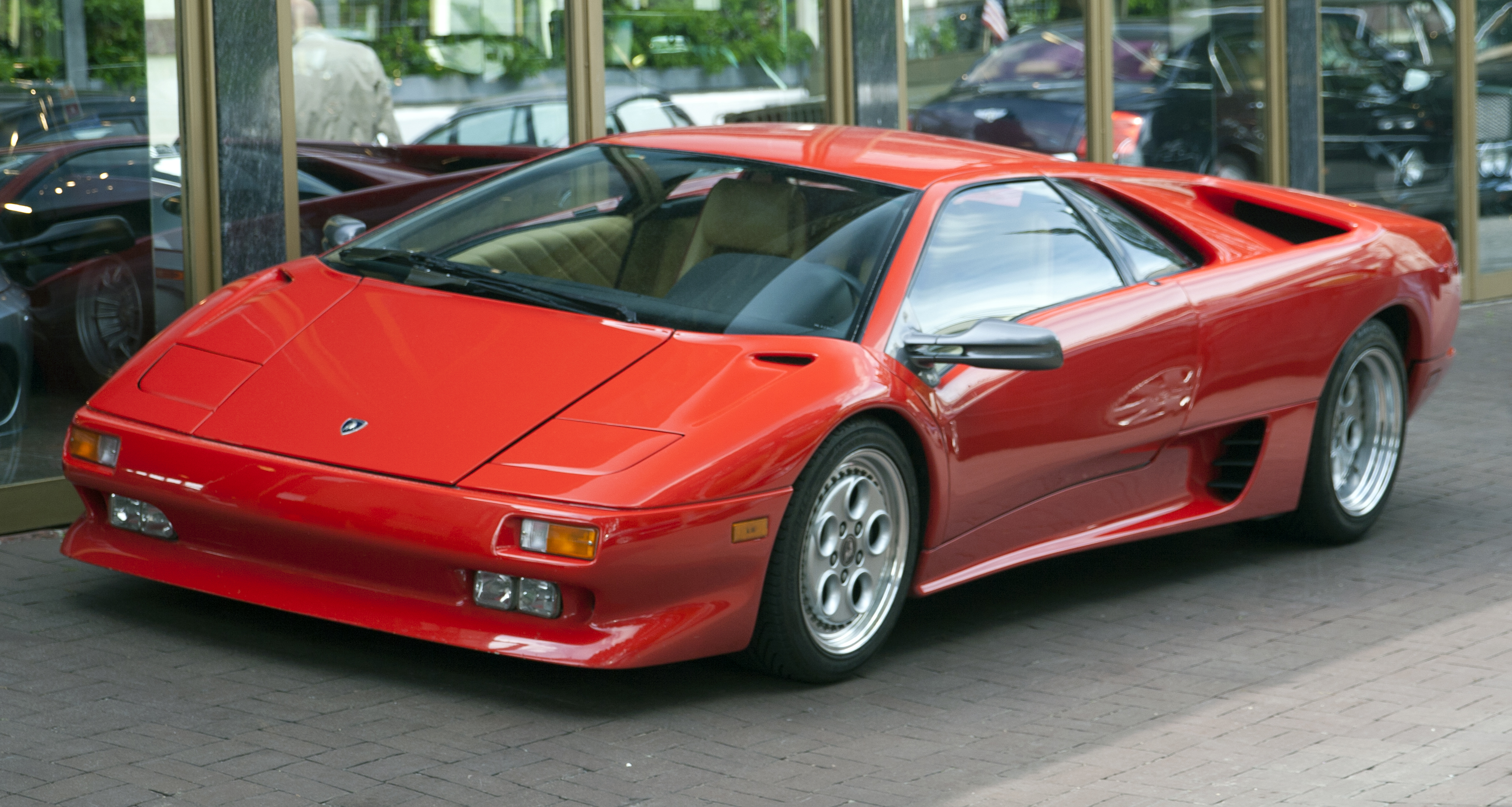 1990/1991 Lamborghini Diablo.